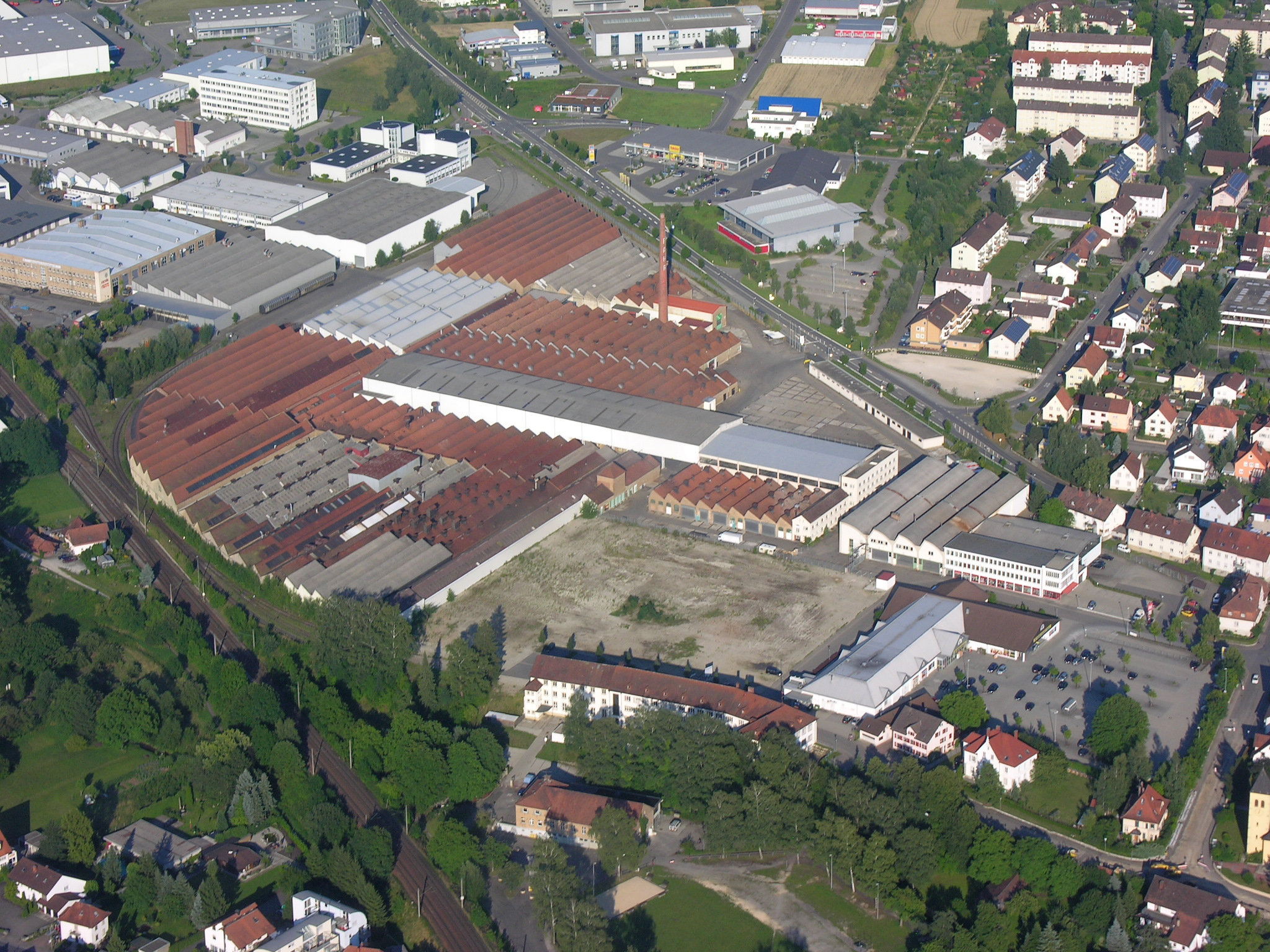 Aerial View of Gottmadingen